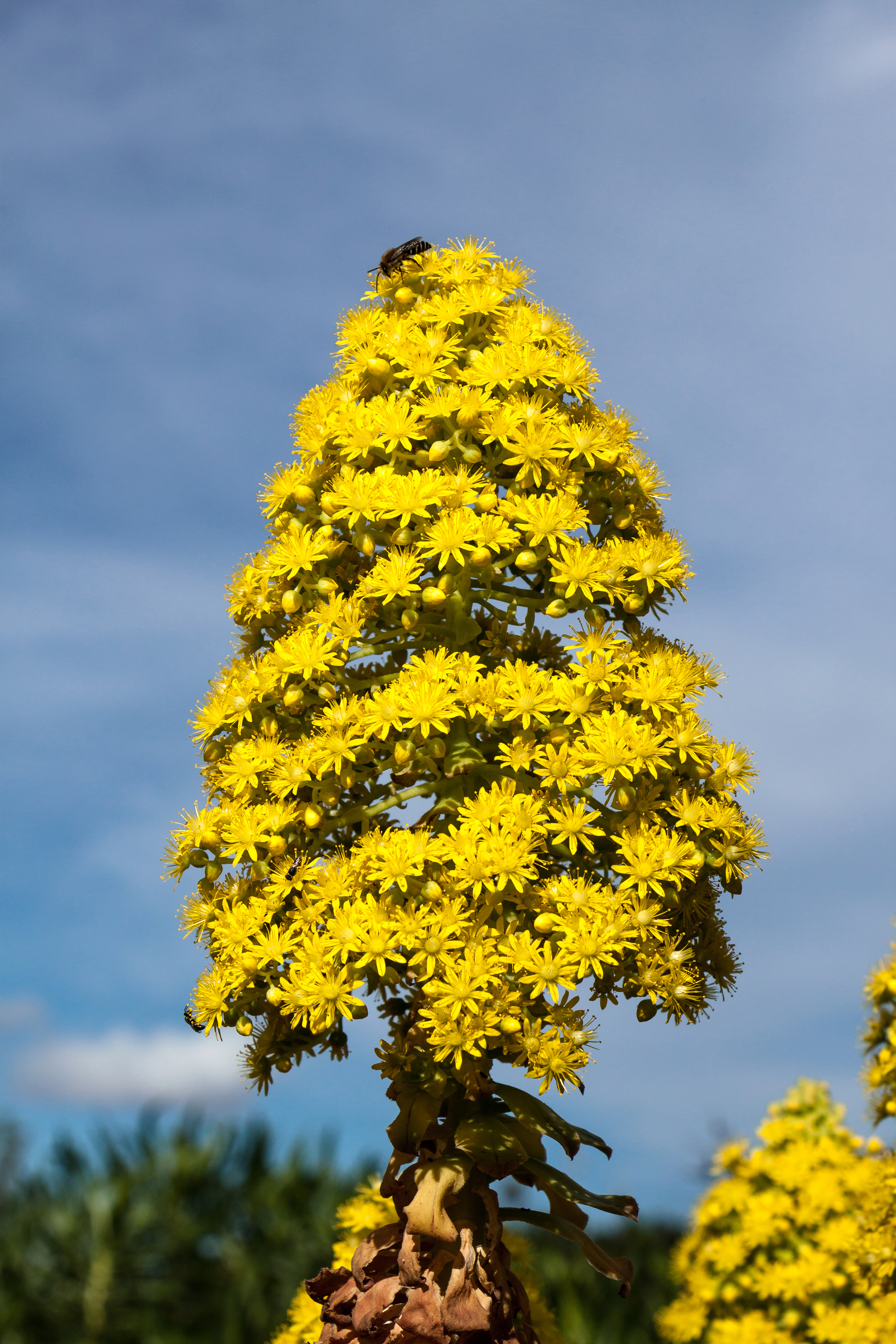 Aeonium arboreum (L.) Webb & Berthel., Tree Houseleek; Inflorescence; Jardín Botánico Canario Viera y Clavijo, Gran Canaria, Canary Islands, Spain.